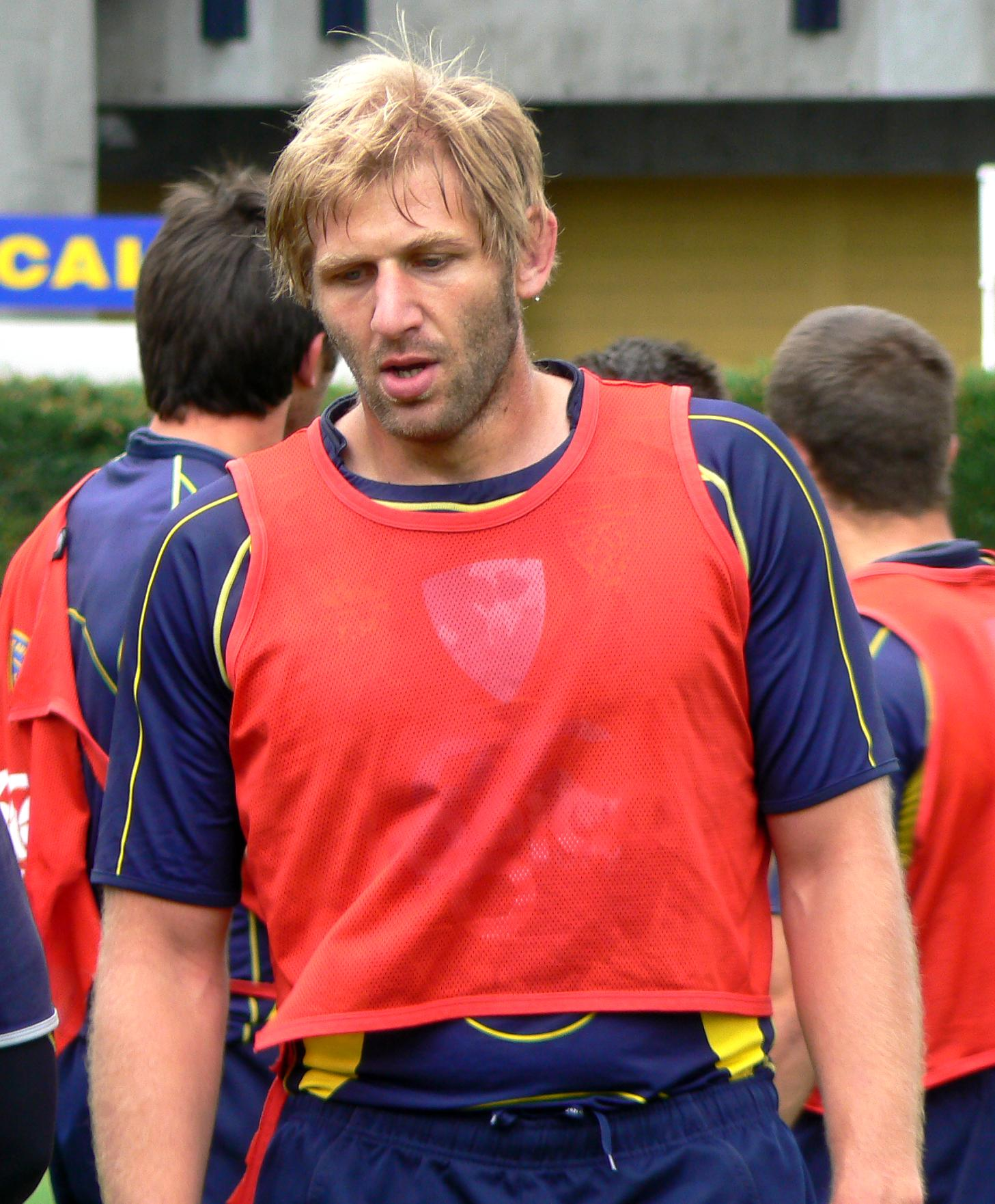 The french rugbyman Thibaut Privat with ASM Clermont Auvergne